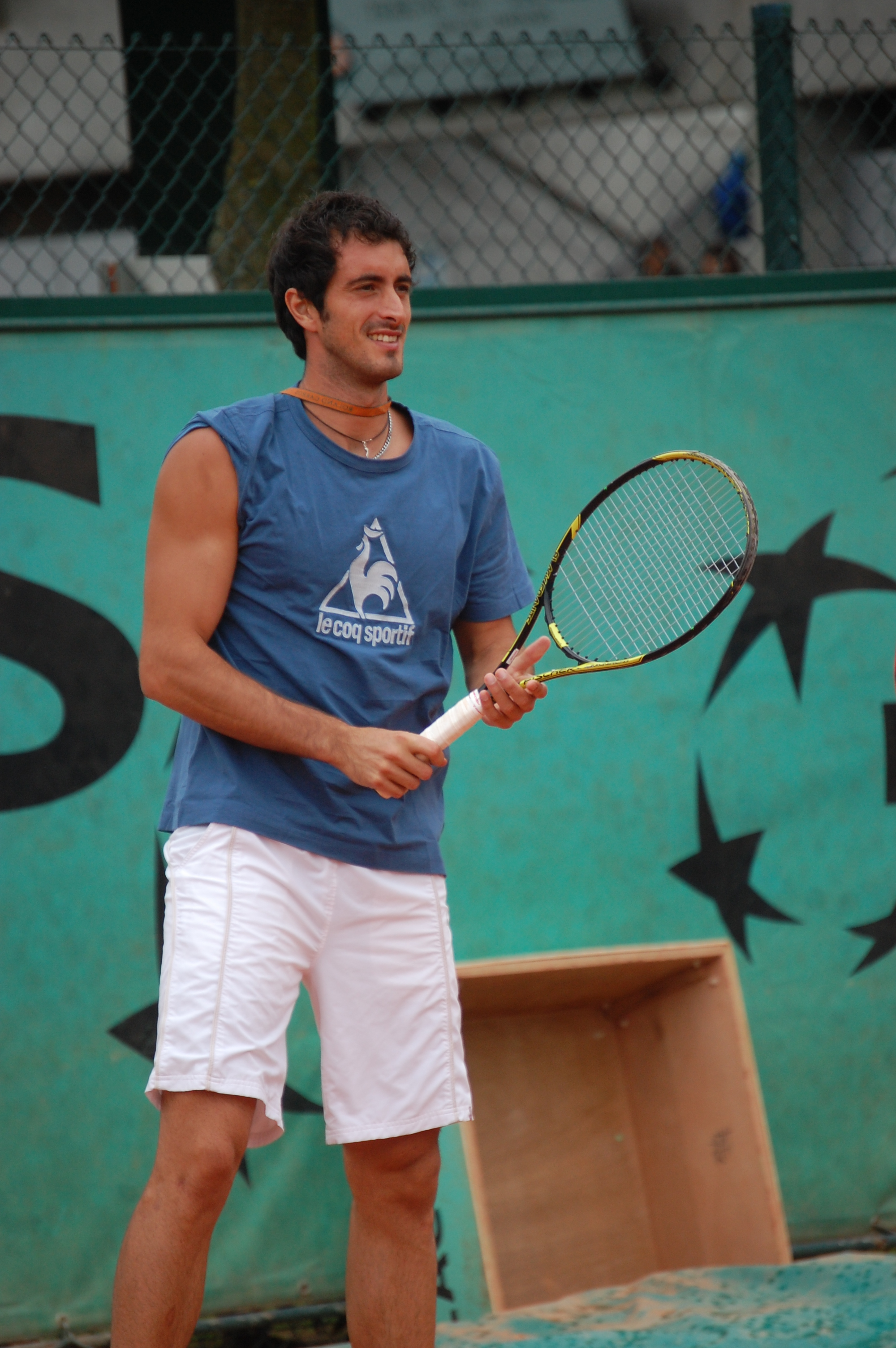 Potito Starace training in Roland Garros during 2009 French Open